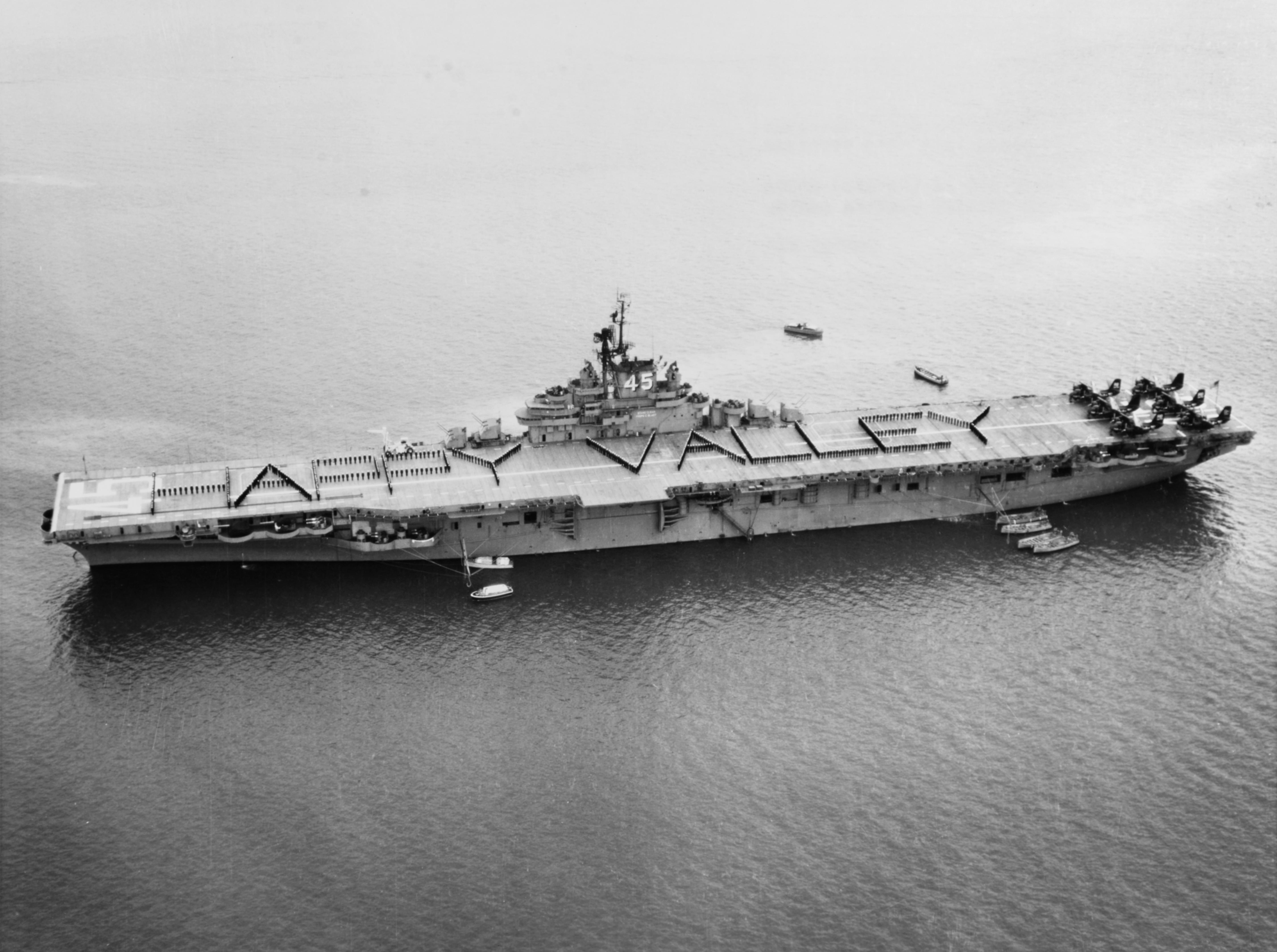 The U.S. Navy aircraft carrier USS Valley Forge (CVS-45) in harbour, 20 January 1956, with crewmen paraded on her flight deck spelling out the ship's nickname: "HAPPY VALLEY".